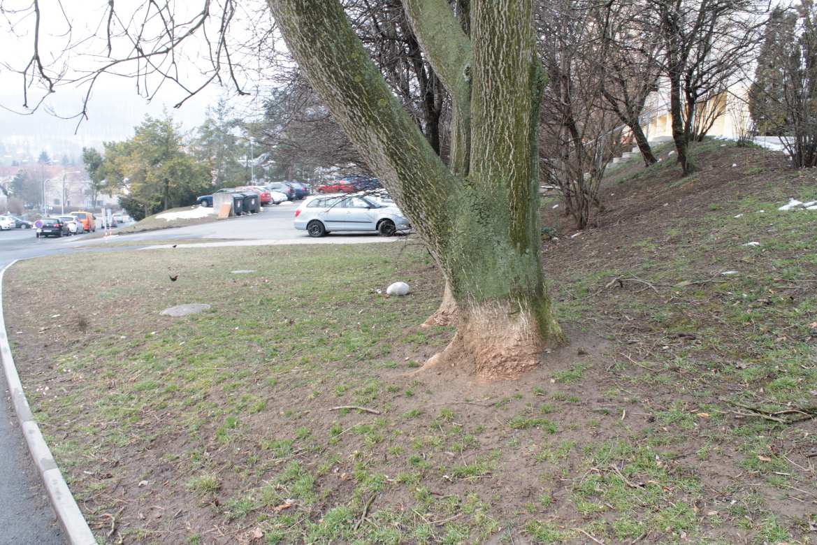 plant damage due dog urination, Brno Komín, Juglans regia